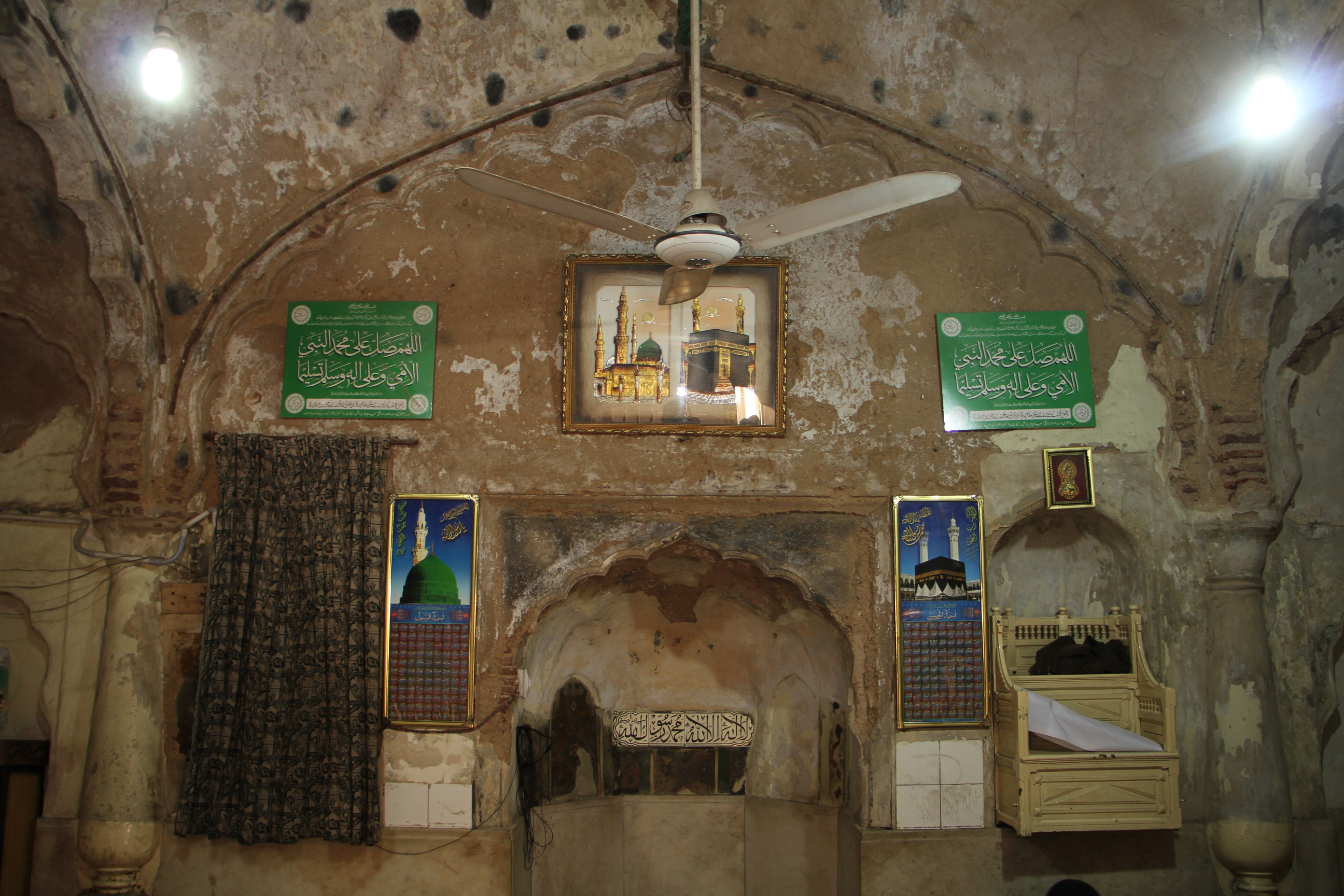 Mosque of Muhammad Saleh Kamboh This is a photo of a monument in Pakistan identified as the PB-P-104